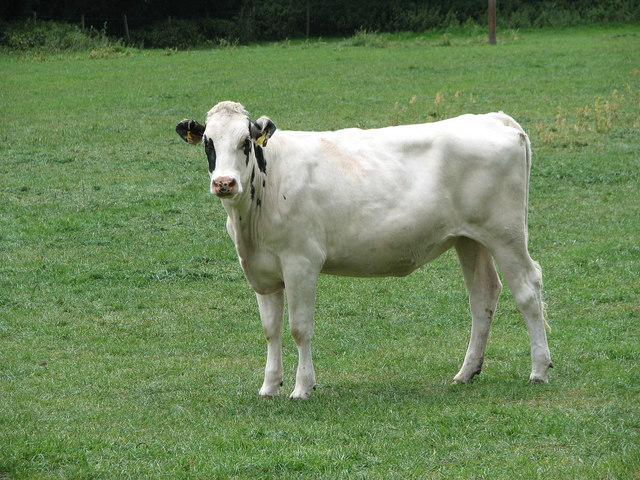 A Friesian heifer. See 1388303 for a wider view of this location.